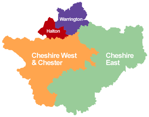 Sketch map of Cheshire with the four unitary authorities labelled